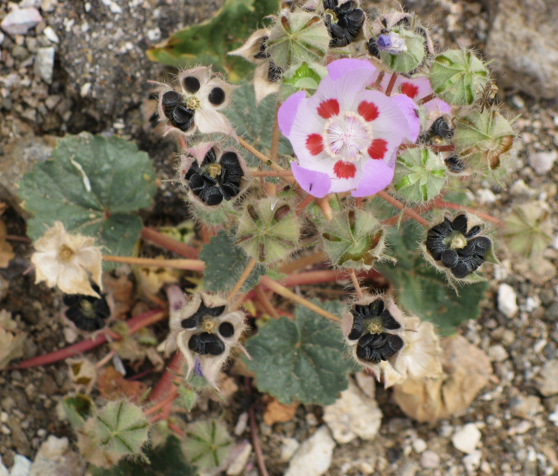 Desert five-spot (Eremalche rotundifolia) flower and seed pods, in the 2016 Death Valley superbloom. Altitude 800 ft (240 m), in wash along Artist Drive.